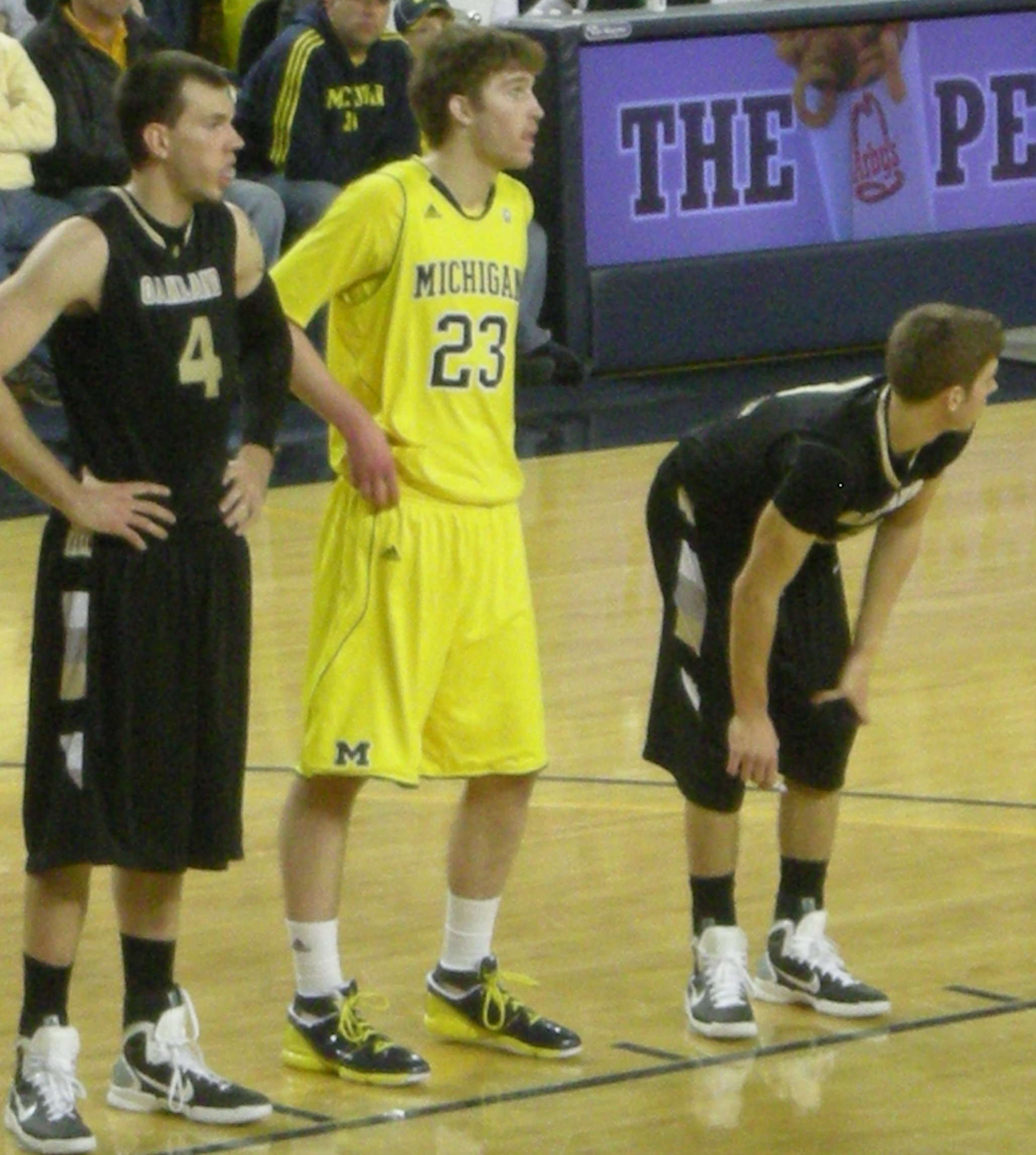 Will Hudson, Evan Smotrycz, and Travis Bader (left to right) during the Oakland Golden Grizzlies vs. Michigan Wolverines men's basketball game at Crisler Arena in Ann Arbor, Michigan (United States).